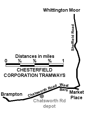 Map of Chesterfield Corporation Tramways, Derbyshire.